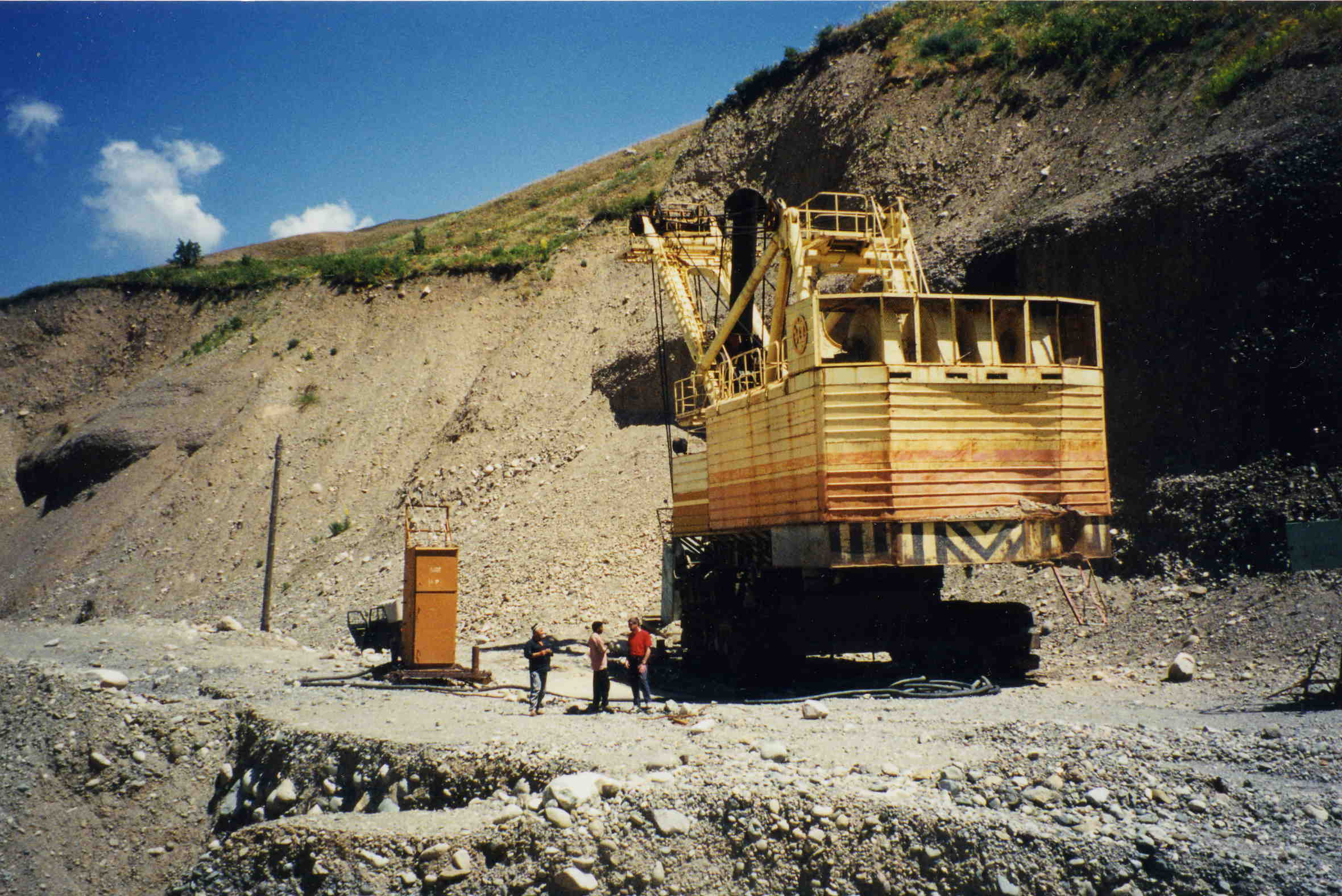 The Face Shovel at Site 2.